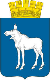 Yoshkar-Ola (Mariy-El), coat of arms (2005)